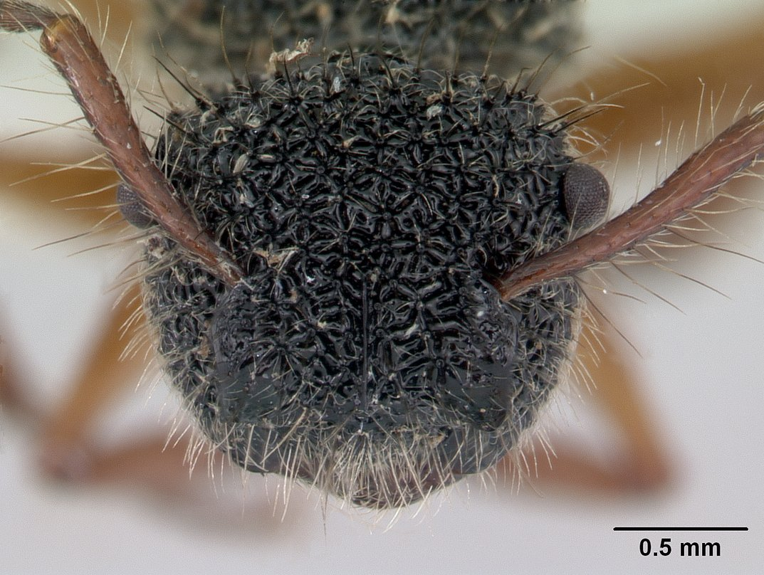 Head view of ant Echinopla pallipes specimen casent0178847.